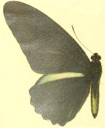 Crassus Swallowtail, male, upperwing